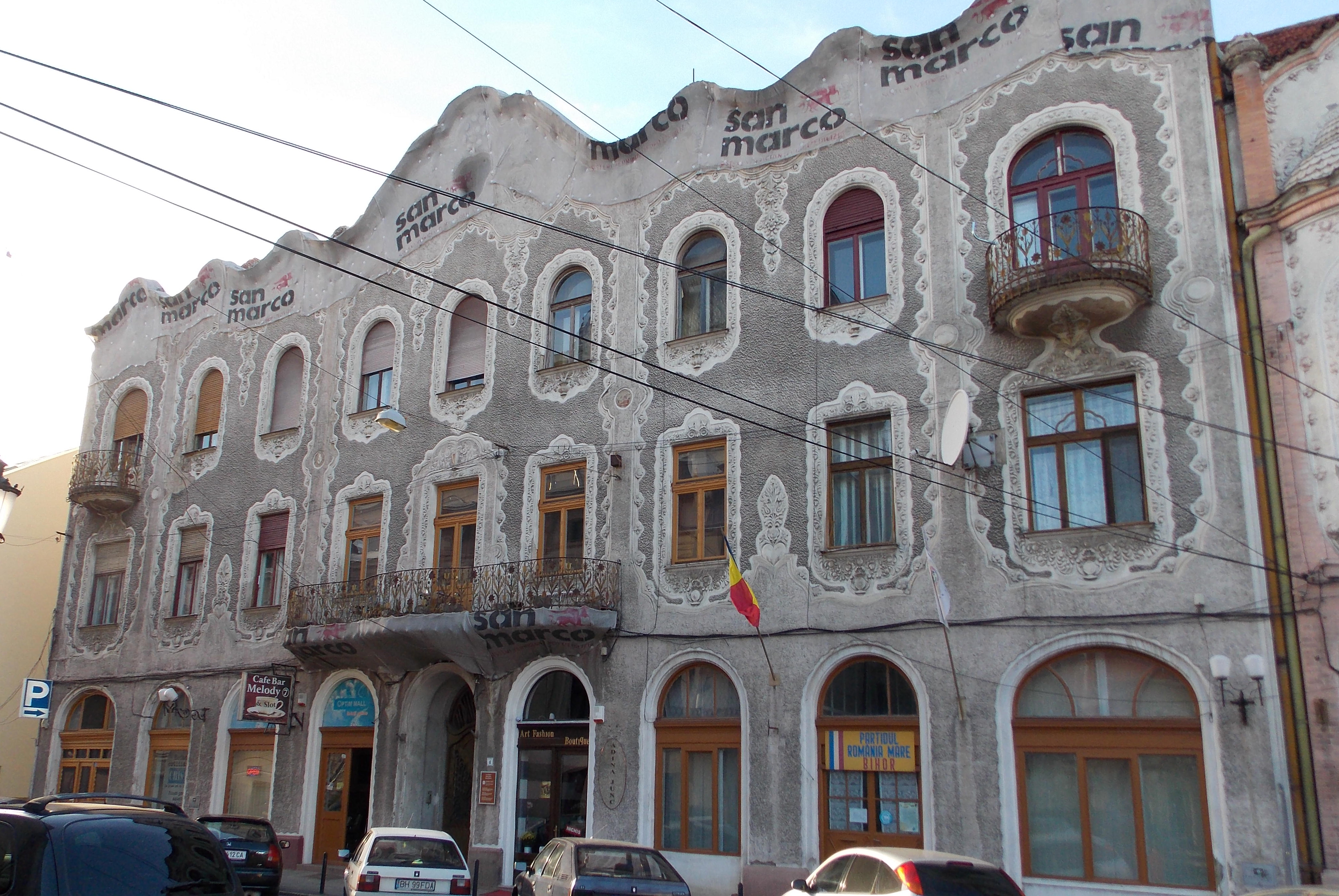 "Adorjan II" House - Oradea